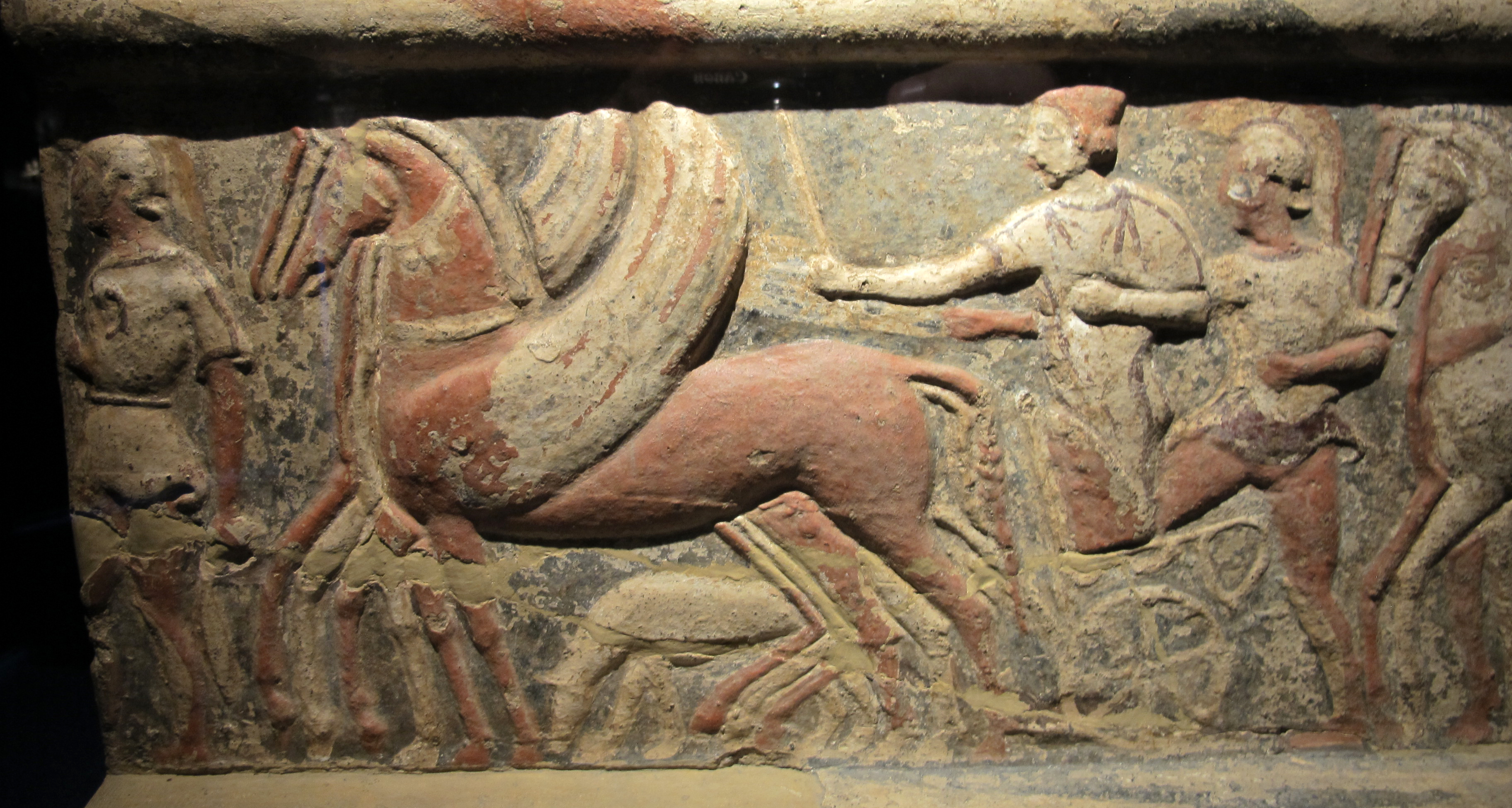 Monsters Exhibition (Palazzo Massimo, Rome, 2014)